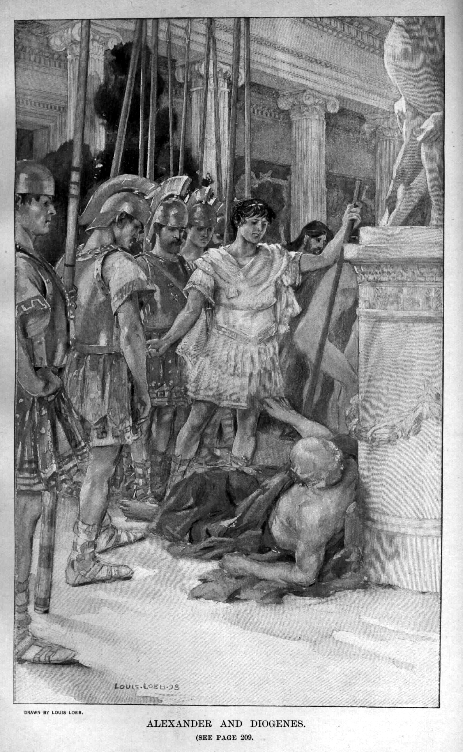 Alexander visits Diogenes at Corinth